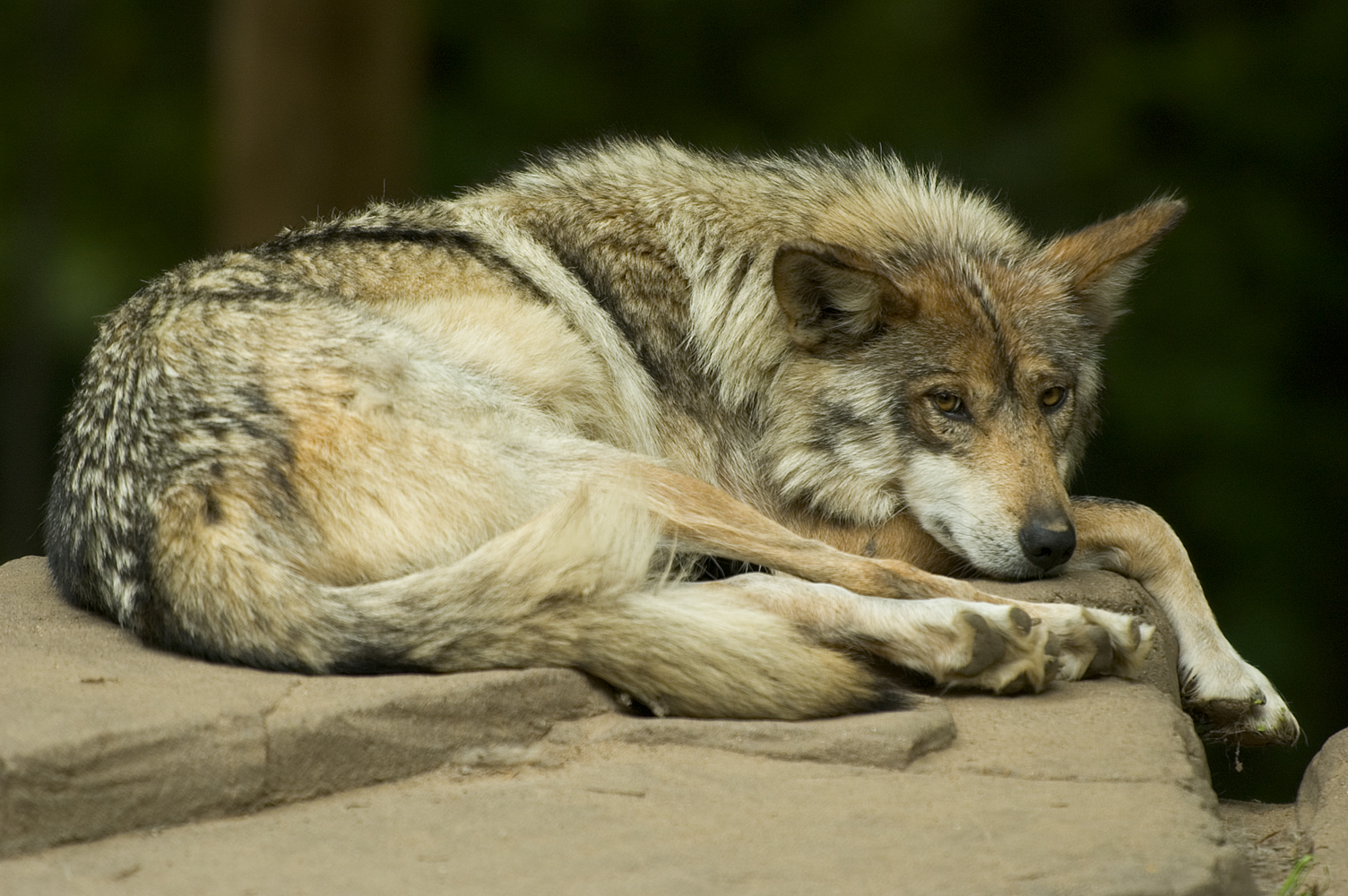 Shot at the Minnesota Zoo. A critically endangered Mexican Gray Wolf is kept captive for breeding purposes. Less than 15 Mexican Wolves are currently estimated to survive in the wild.